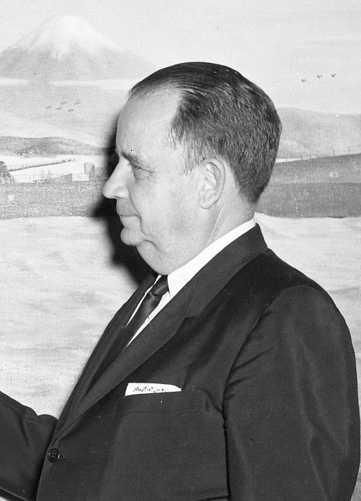 Civil Defense Shelter Sign (MSA) Collection Name: Commerce and Industrial Development Photograph Collection Photographer/Studio: Massie, Gerald R. Description: Civil Defense Director Dean Lupkey and Governor John Dalton hold up "Shelter Area" sign in front of large painting of USS Missouri. Coverage: United States - Missouri - Cole - Jefferson City Date: Not dated Rights: Copyright is in the public domain. Credit: Courtesy of Missouri State Archives Image Number: CID_044-157 Institution: Missouri State Archives